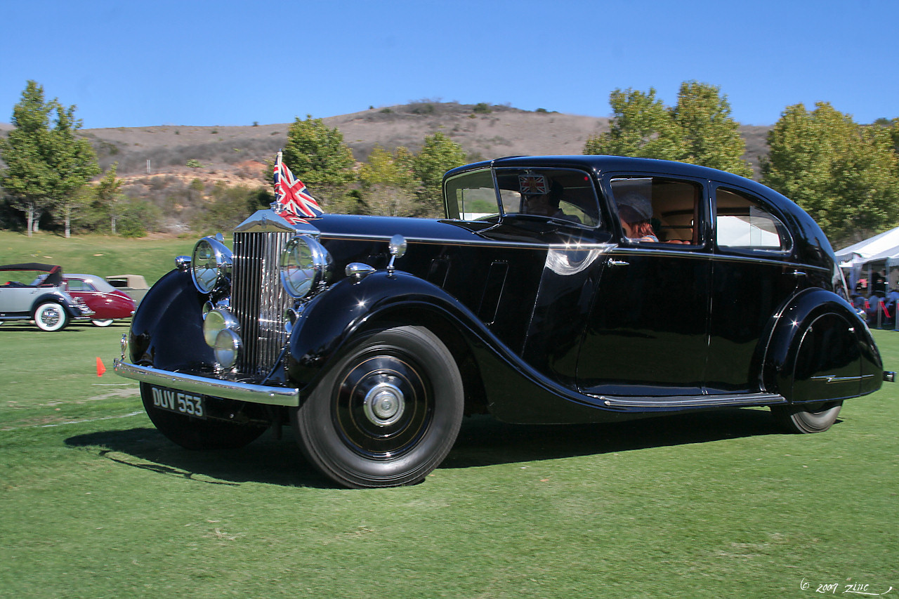 1937 Rolls-Royce Phantom III Touring Limousine by H J Mulliner Newport Beach, CA, Concours d'Elegance, Strawberry Farms, Oct 9, 2007 Chassis 3AX79